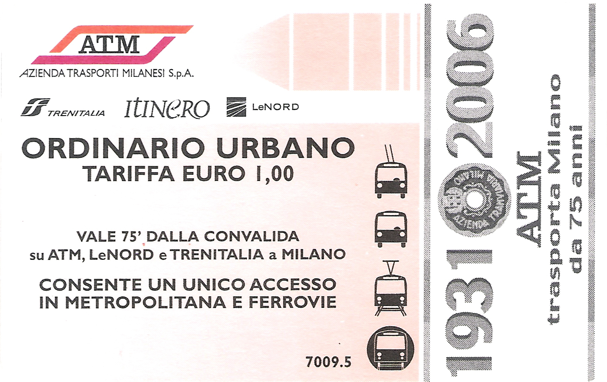 Celebrative version of ordinary paper-magnetic ticket (SBME system[1][2]) from ATM Milano - front view; was emitted in 2006 for the 75 years anniversary of the "Azienda Trasporti Milanesi".